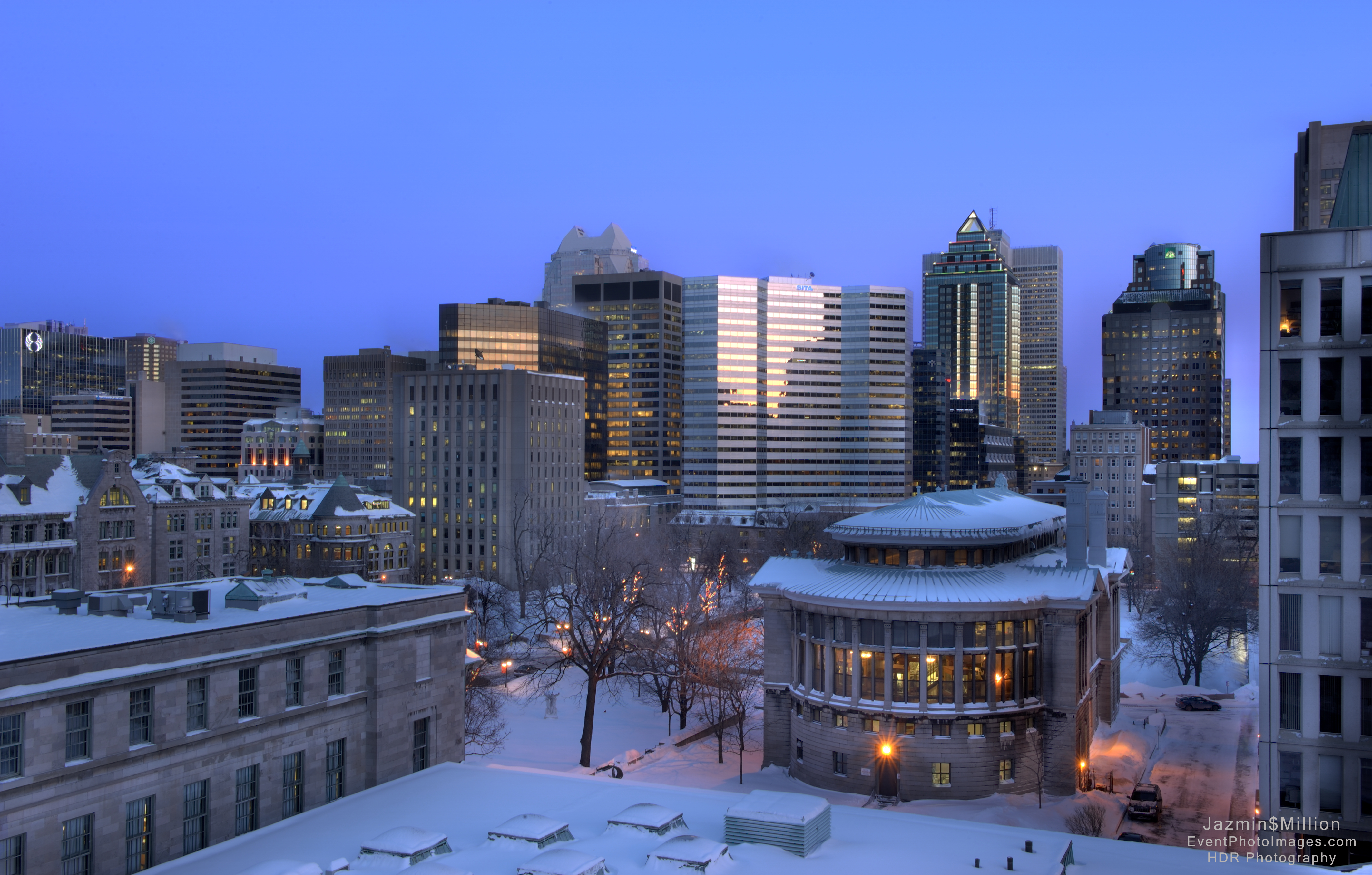 I Think I got the hang of HDR now, this is my sixth one... Photo taken at 4:35pm If you look at the large version its enough dynamic range to see both the insides of the top floor office of the building on the right and the unlit office on the first floor. Amazing! D3 HDR@ -28 with the wind chill factor.